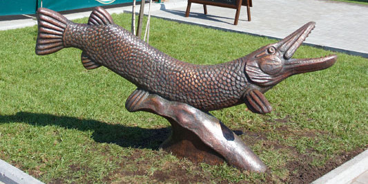 Pike of Kremenchuk